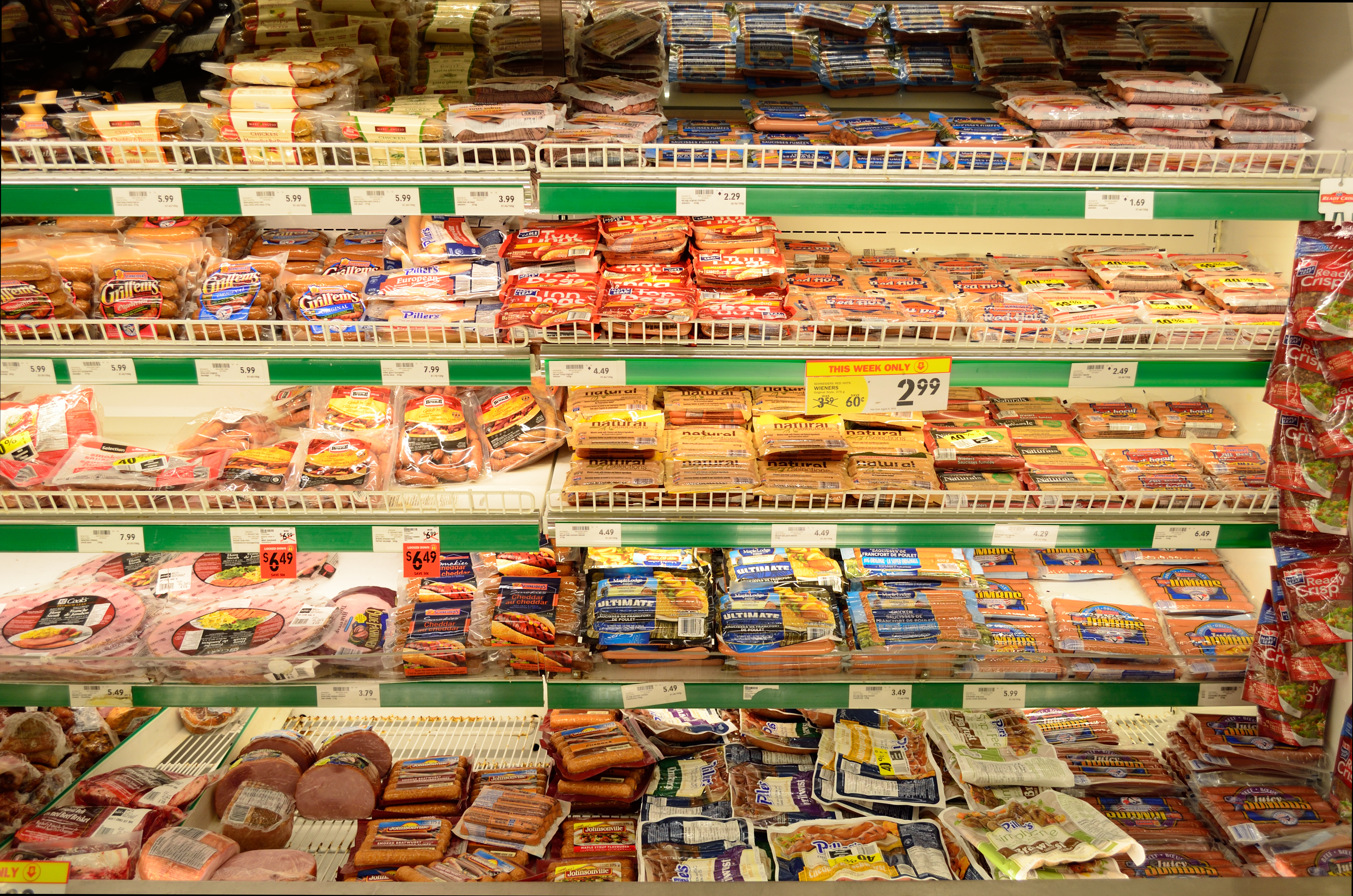 Processed meats in a supermarket